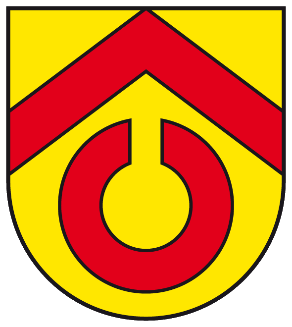 Coat of Arms of Bokensdorf